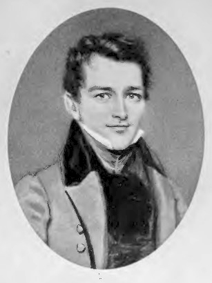 Alexander Hamilton's oldest son, Philip, at age 20